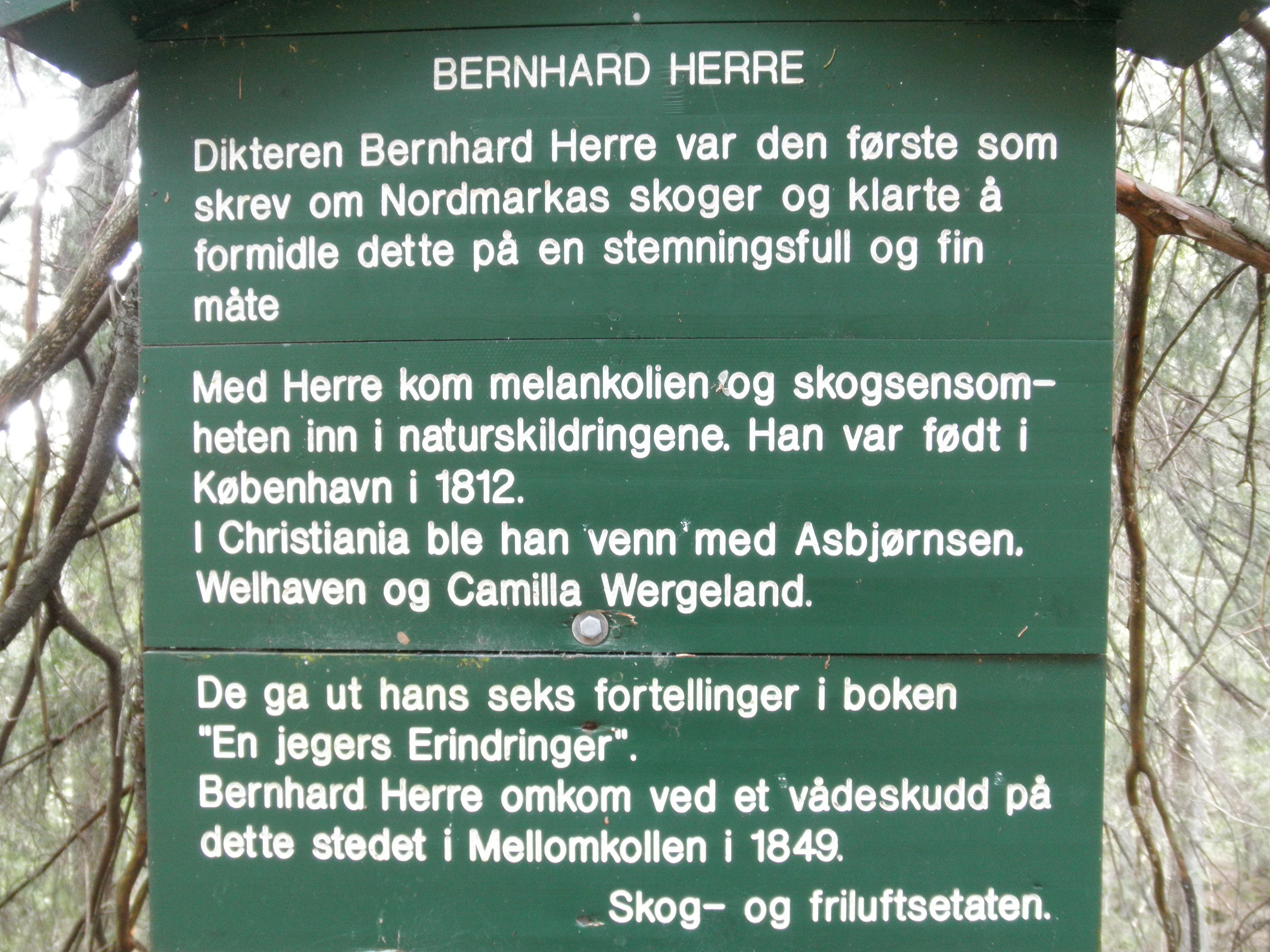 Commemorative plaque to the writer Bernhard Herre, close to the place in Mellomkollen, Oslo, where he died in 1849 of what was supposed to be an accidental discharge.